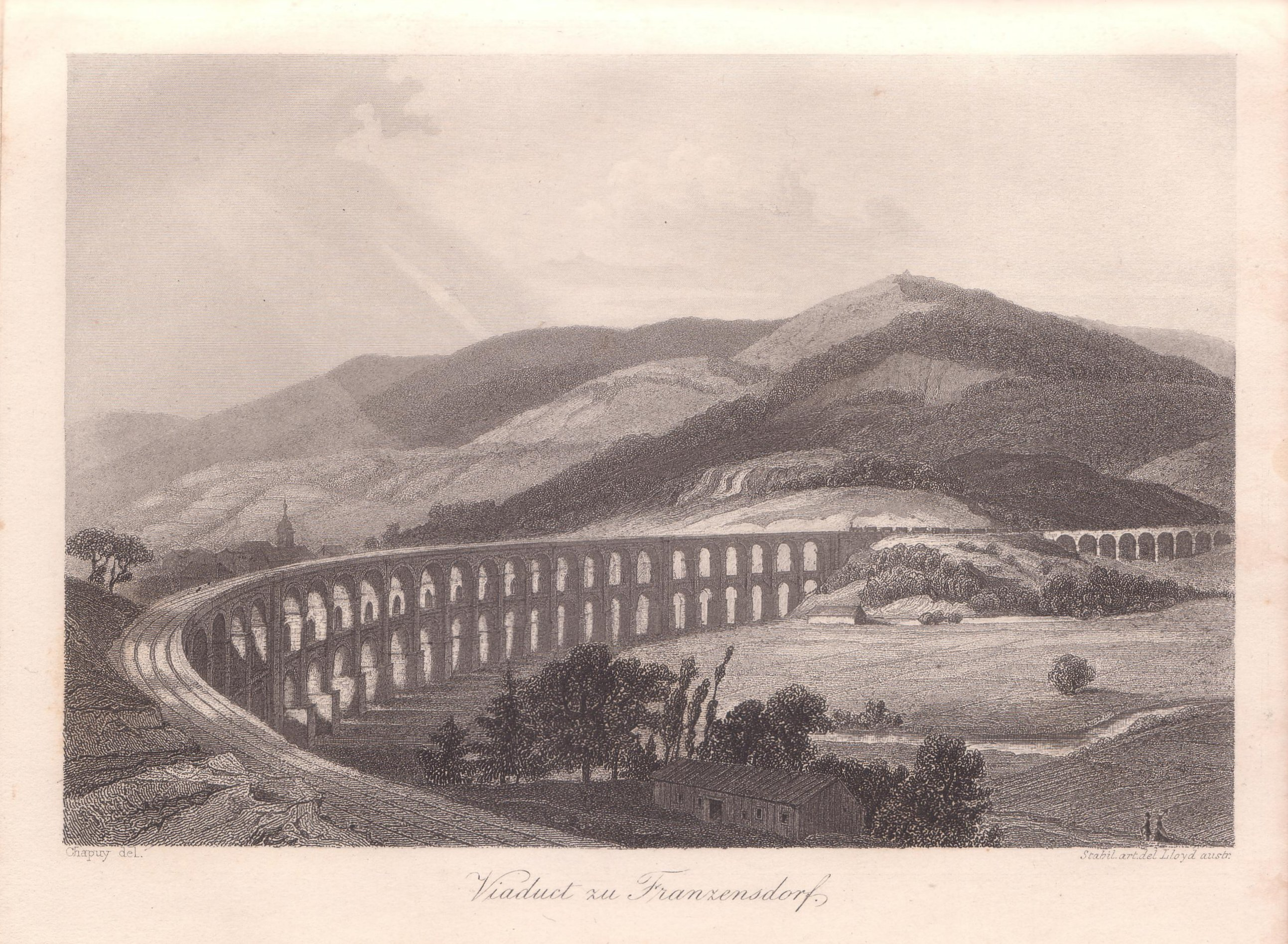 Franzdorfer Viadukt, Stich von Chapuy